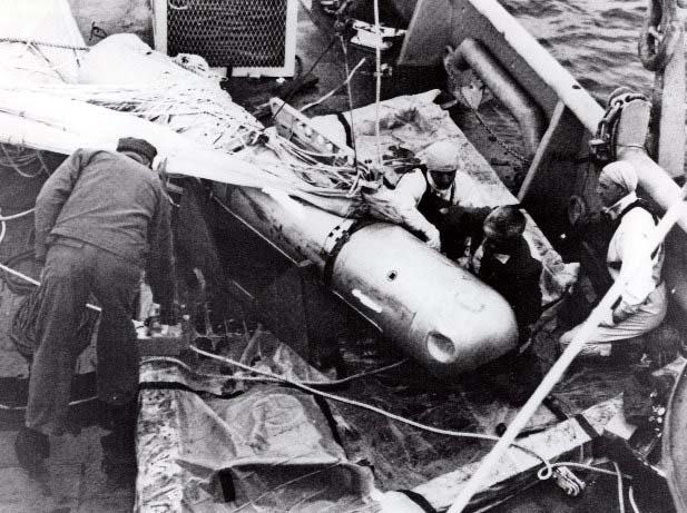 Recovered "Robert", Mk 28RI special weapon, aboard USS Petrel; note missing tail fins and damage to frangible "false nose".